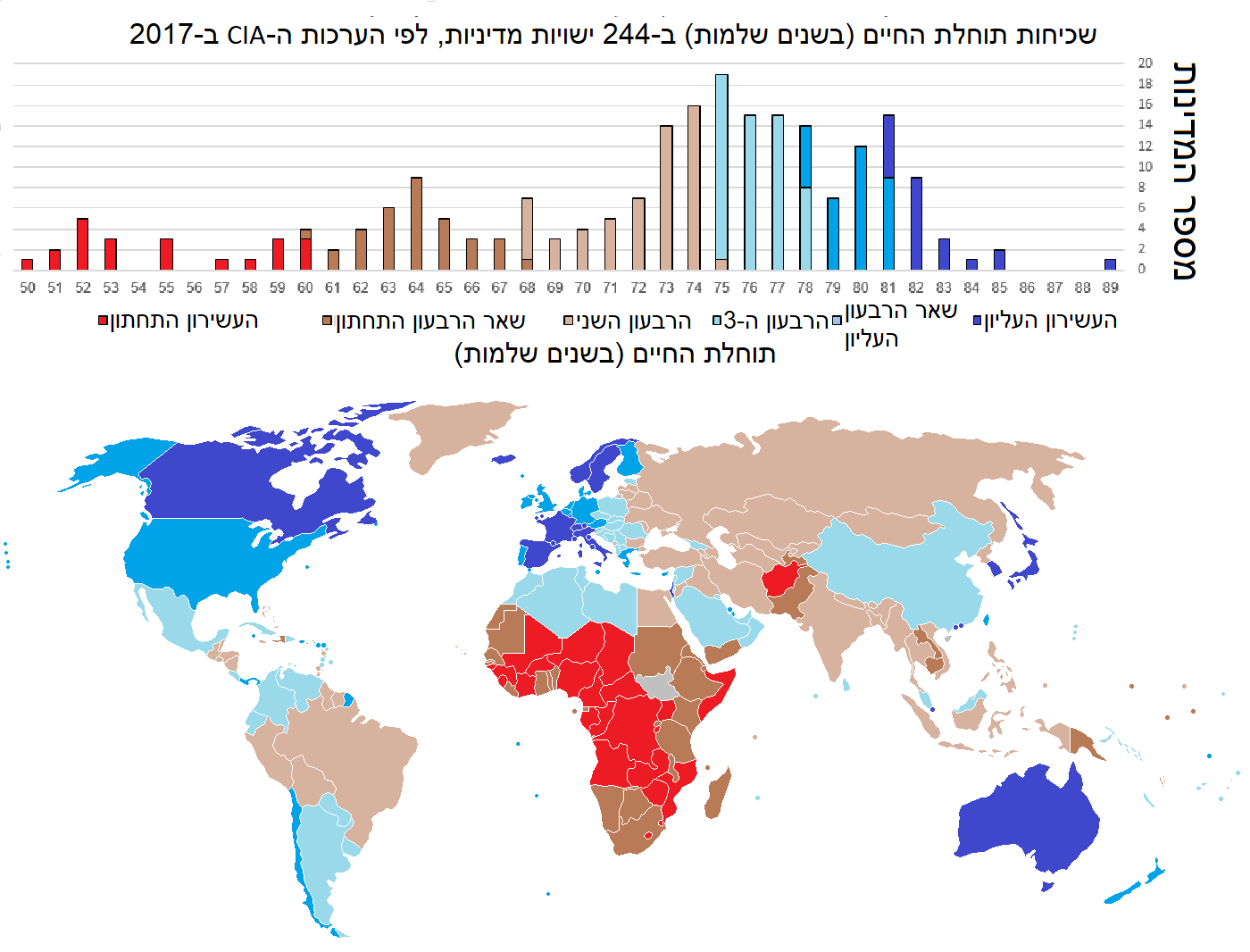 World life expectancy by the CIA estimations, 2017